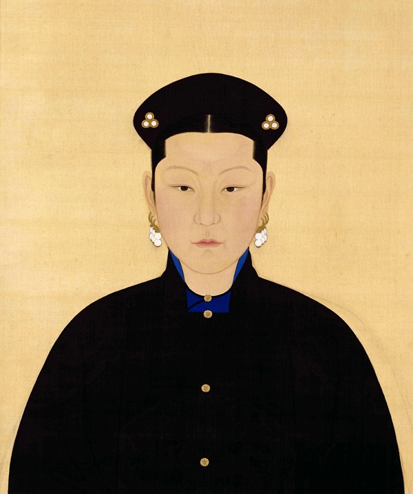 Empress Niuhuru, the second wife of Emperor Kangxi of Qing dynasty